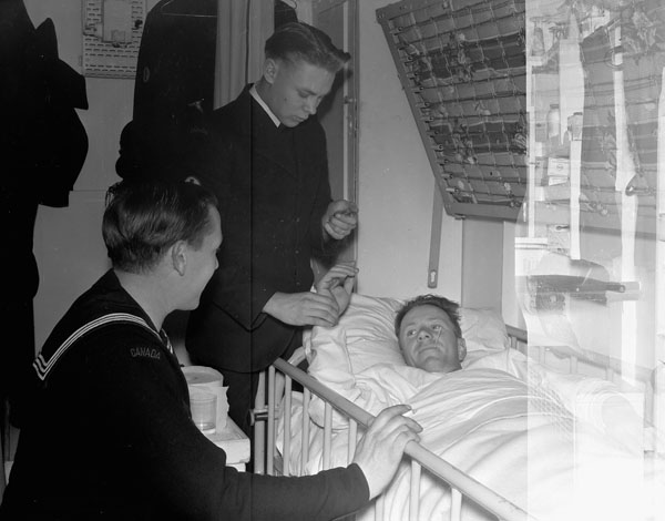 Medical personnel with a patient in the sickbay of H.M.C.S. PROVIDER, Halifax, Nova Scotia, Canada, 17 January 1943.